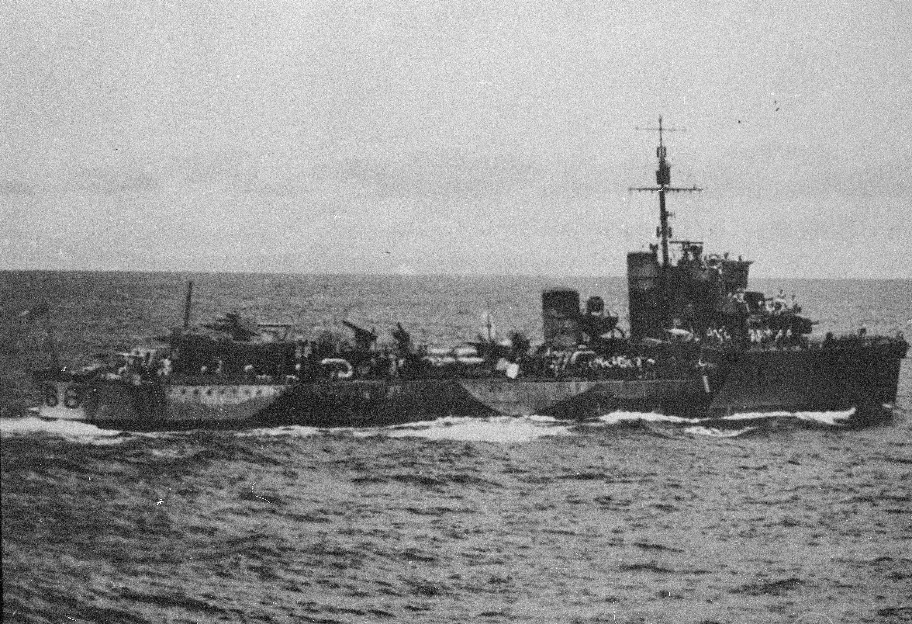 1942-03-04. HMAS VAMPIRE AT SEA SHOWING HER STARBOARD SIDE.